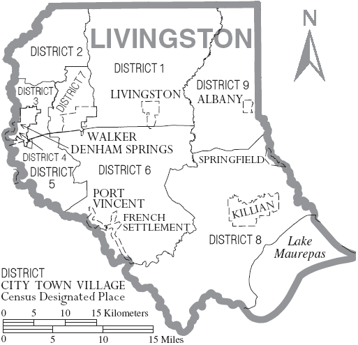 Map of Livingston Parish, Louisiana, United States with municipal and district boundaries